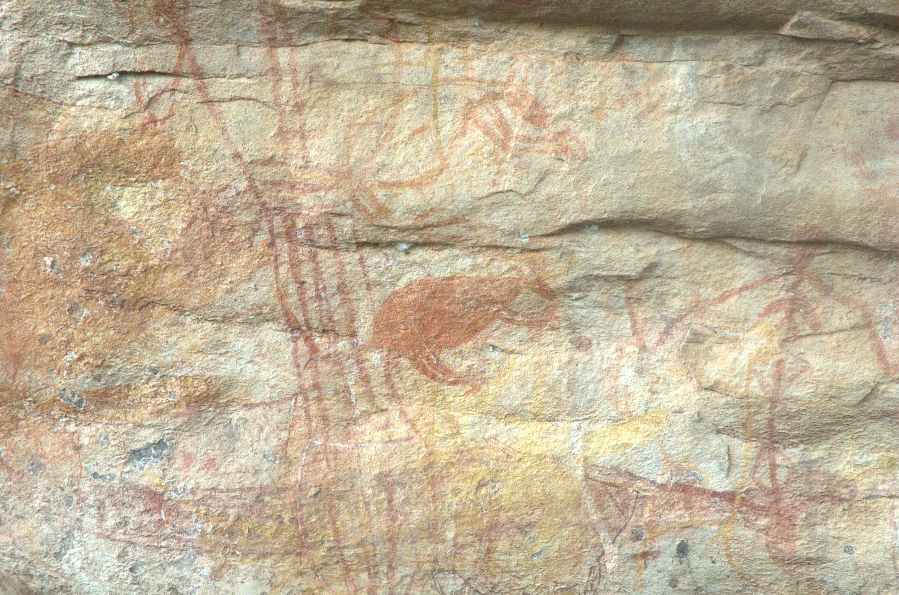 An ancient Aboriginal rock painting of a wallaby in Kakadu National Park in Northern Australia.